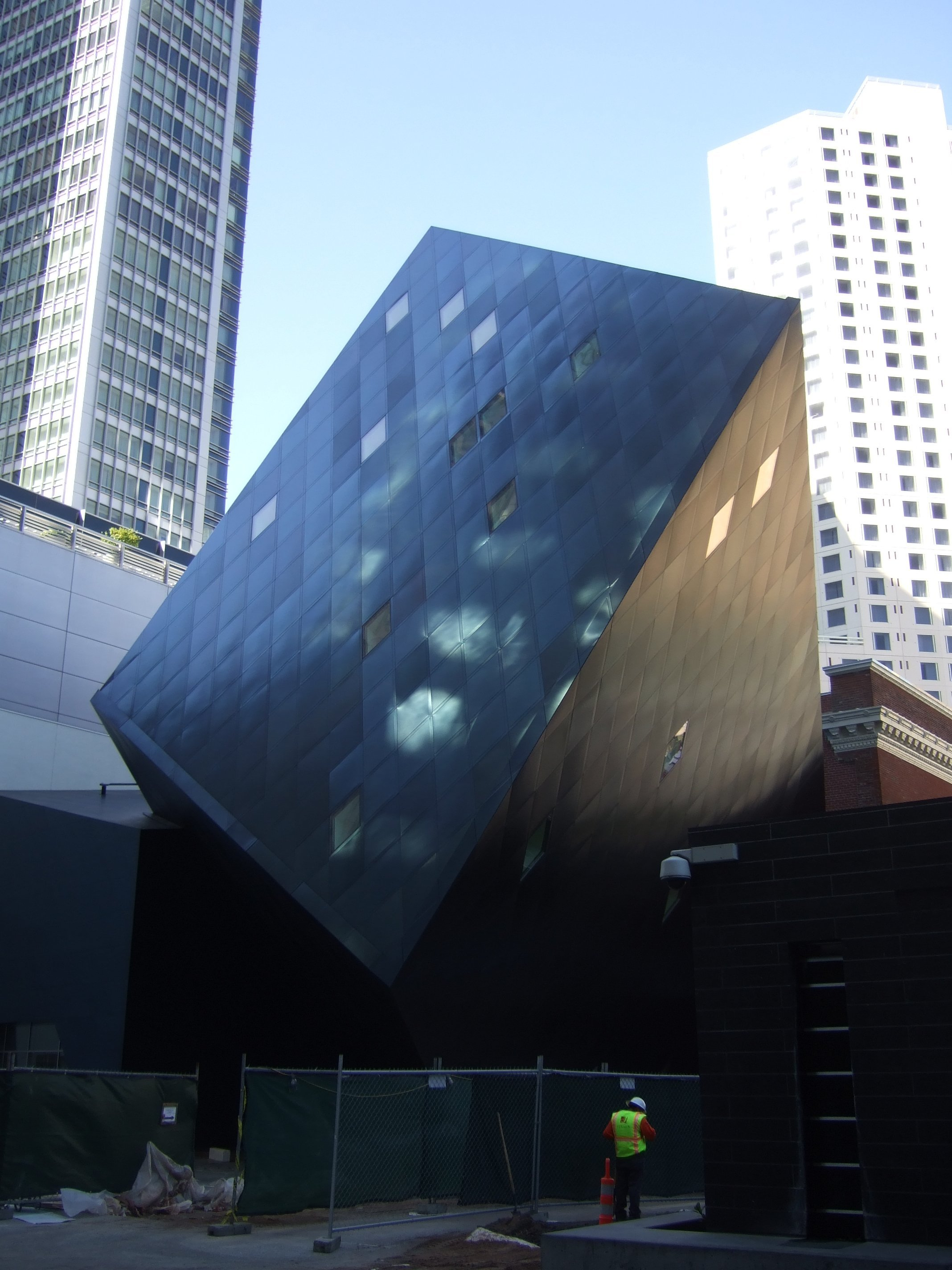 Contemporary Jewish Museum, San Francisco, California, USA